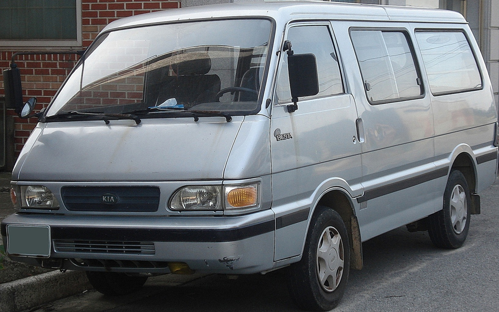 Kia Hi Besta